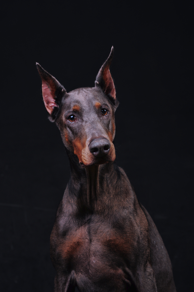 Blue Dobermann